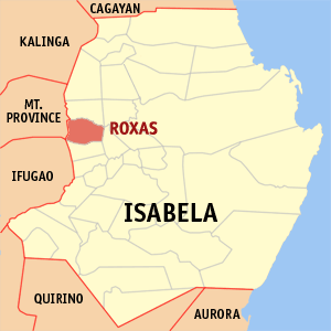 Map of Isabela showing the location of Roxas